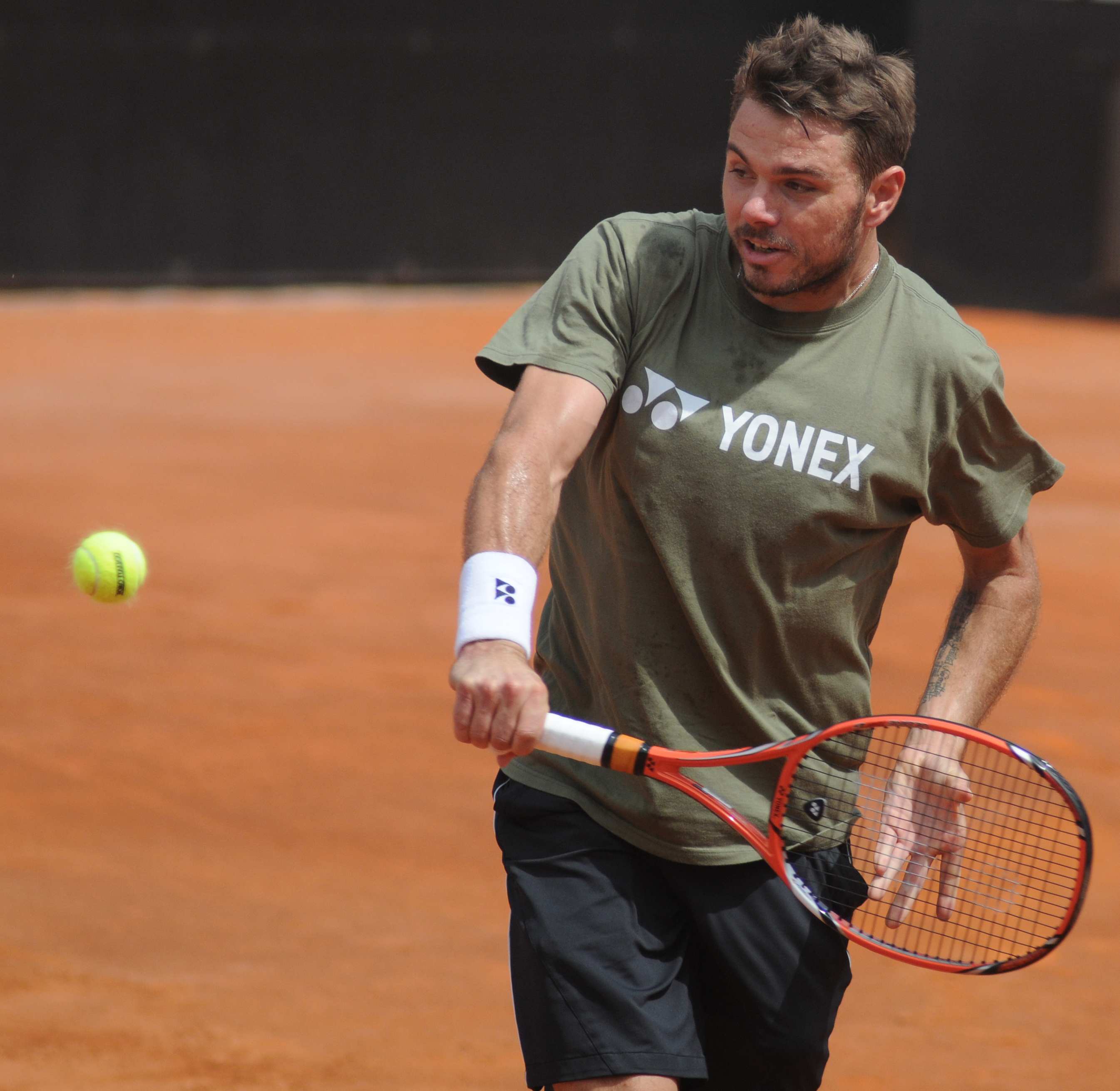 Stanislas Wawrinka at the 2014 Internazionali BNL d'Italia